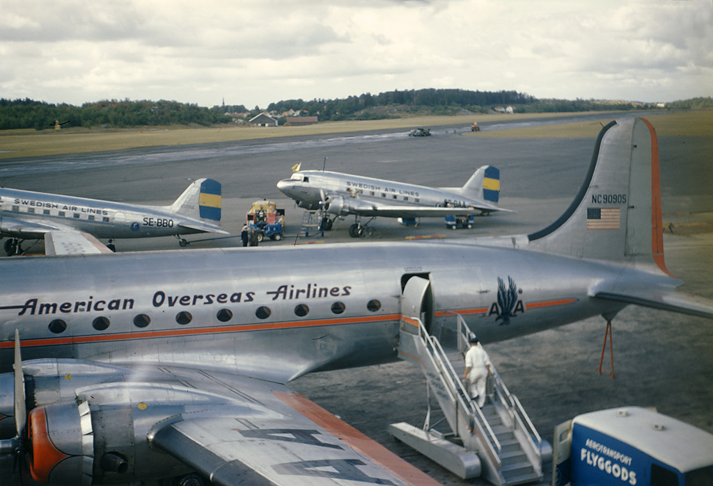 Aircraft at Bromma Airport near Stockholm City. The aircraft in the foreground is a Douglas DC-4, the two in the background are Douglas DC-3's. Flygplan på Bromma flygplats nära Stockholms innerstad. Flygplanet i förgrunden är en Douglas DC-4, de i bakgrunden är båda Douglas DC-3. Parish (socken): Bromma Province (landskap): Uppland Municipality (kommun): Stockholm County (län): Stockholm Photograph by: Fredrik Bruno Date: 1947 Format: Colour slide Persistent URL: Read more about the photo database (in english)